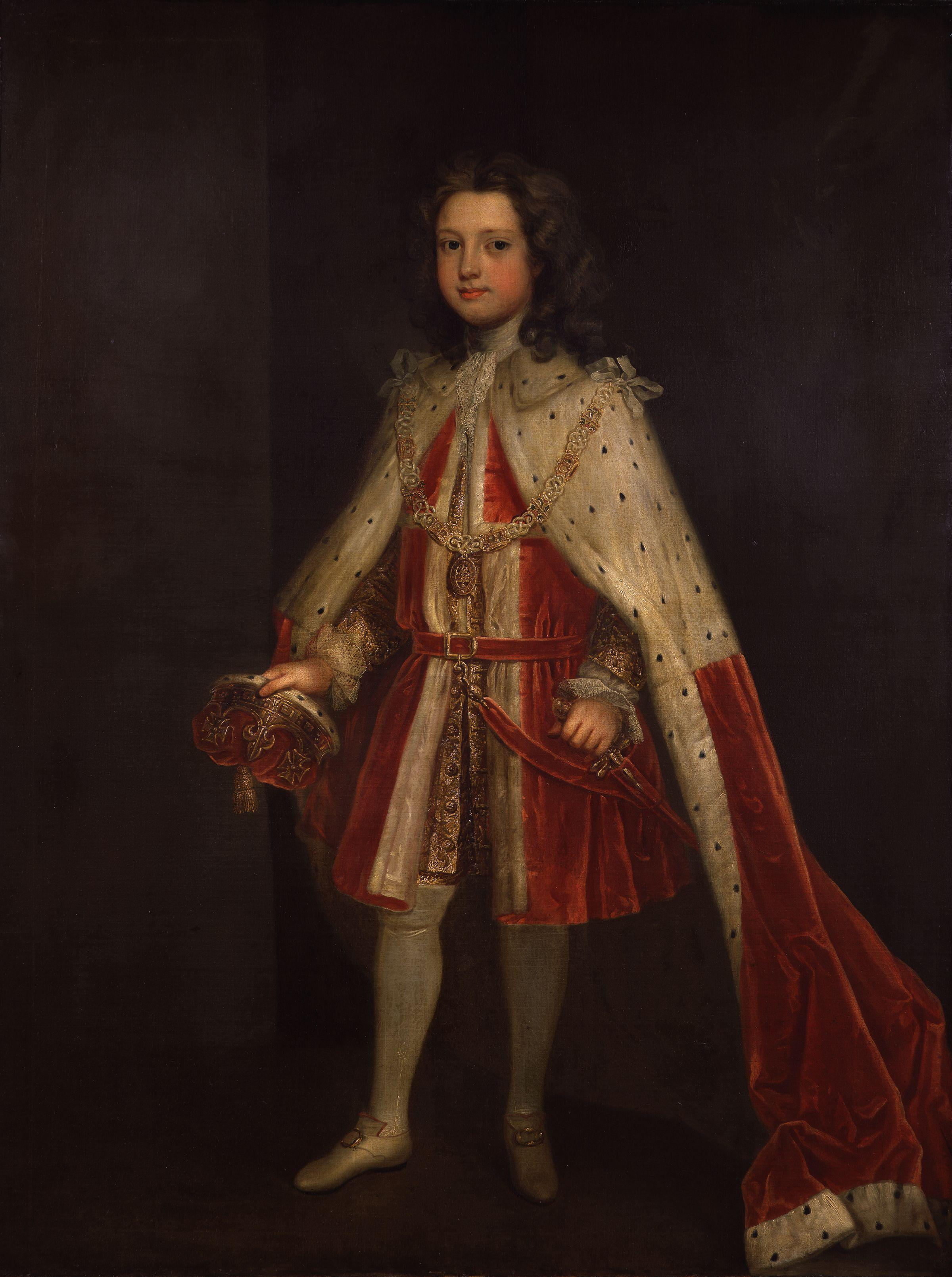 Portrait of William Augustus, Duke of Cumberland (1721-1765)